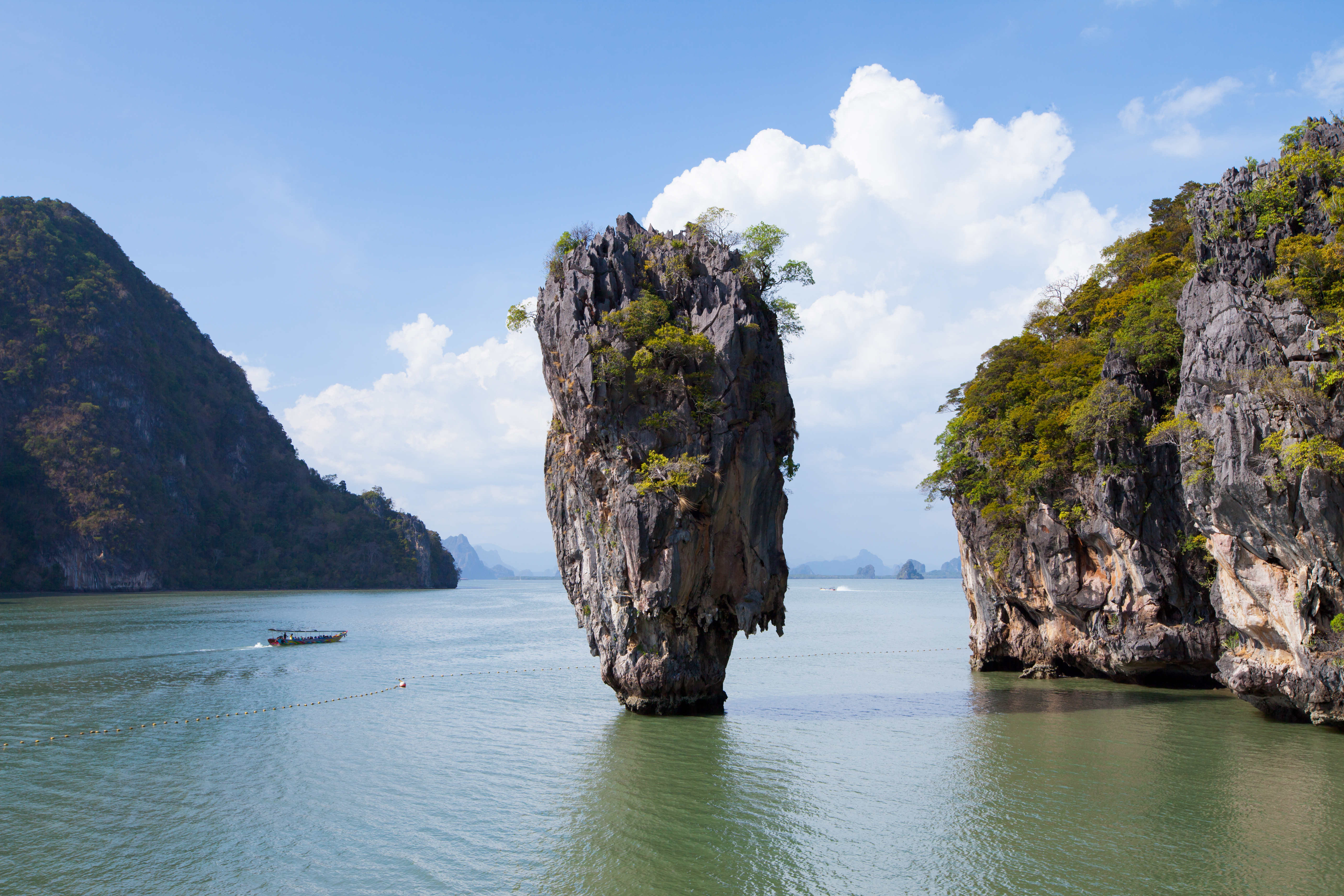 อุทยานแห่งชาติอ่าวพังงา